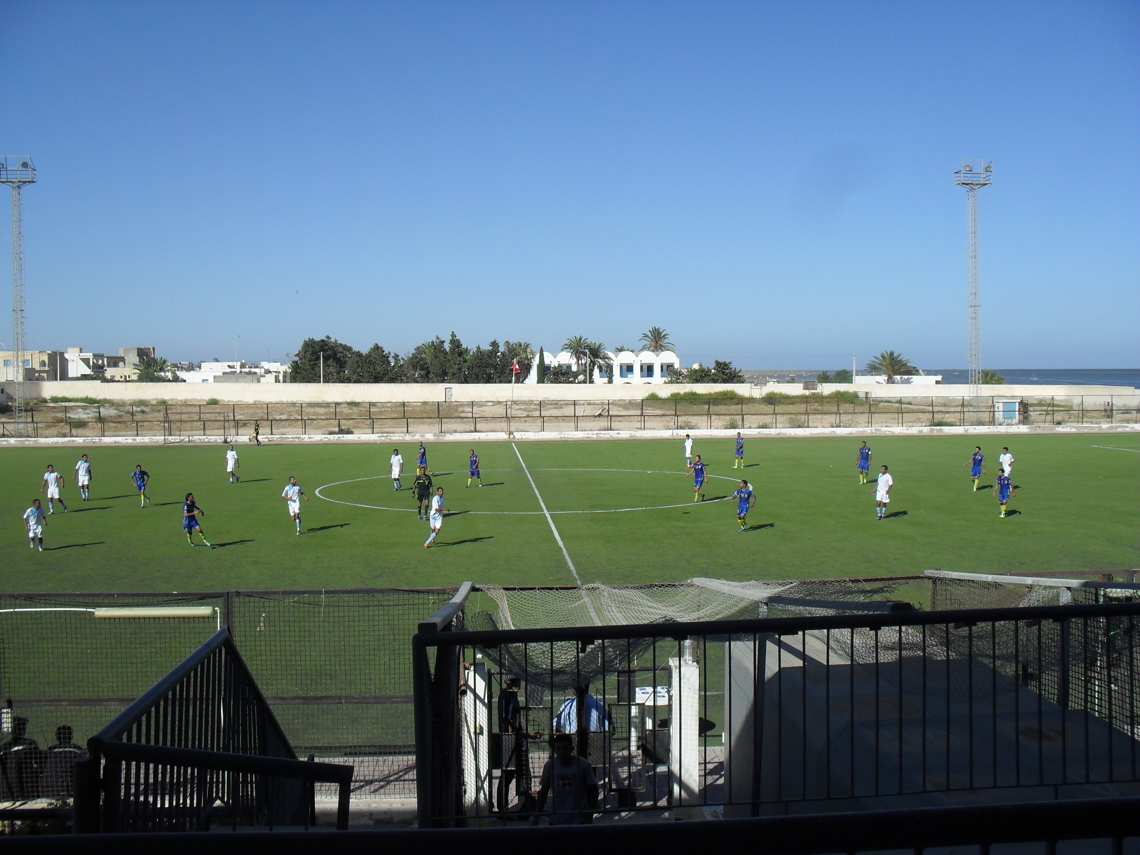 OCK-SSS 1-0